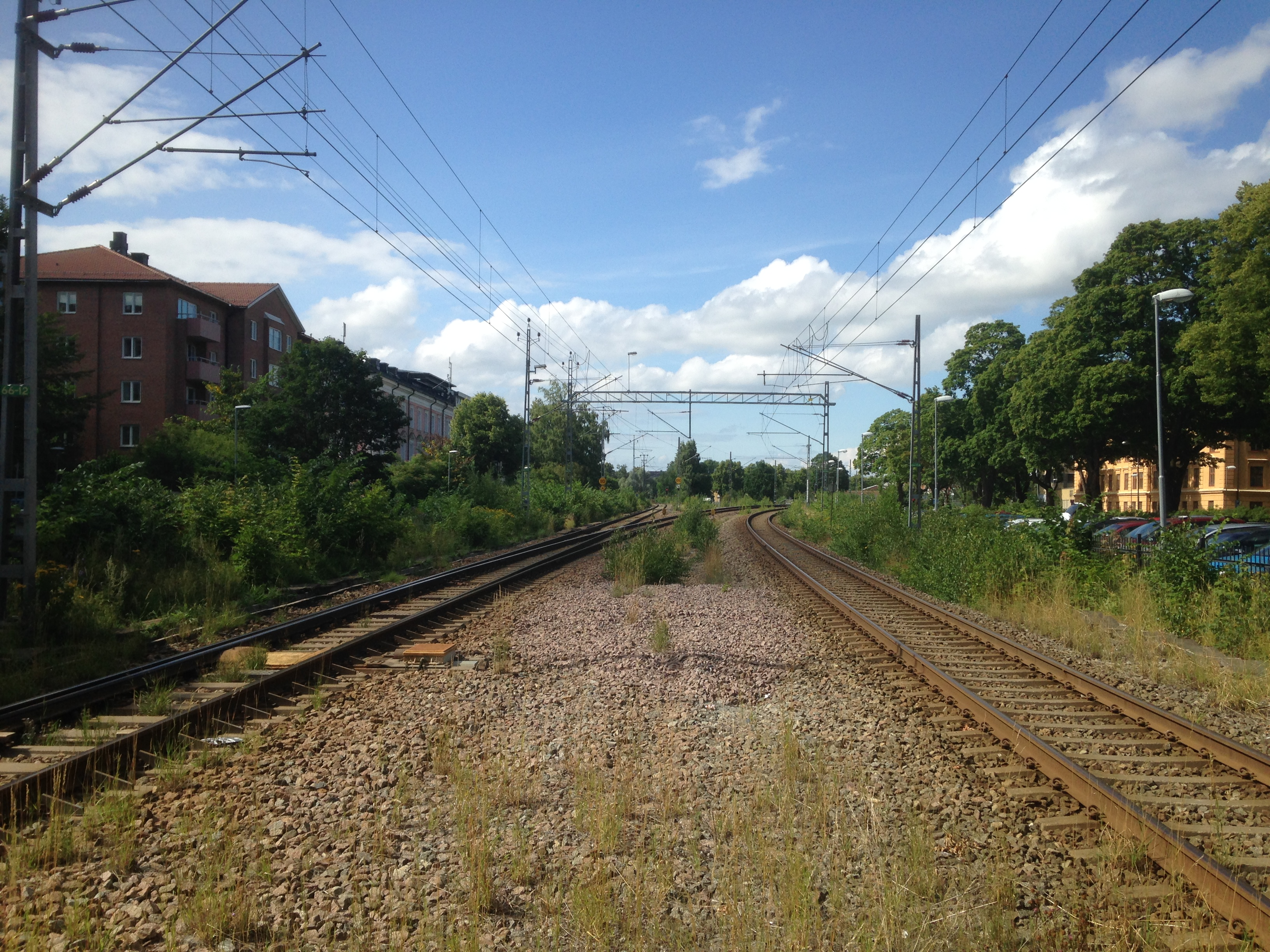 The railway dala line's connection to the east coast line at the Saint Olof Street in Uppsala, Sweden.